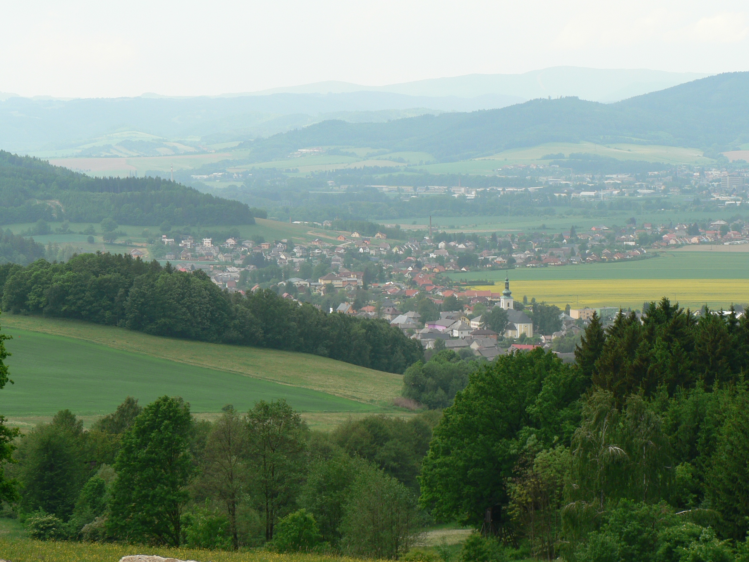 View of Novy Malin from east.